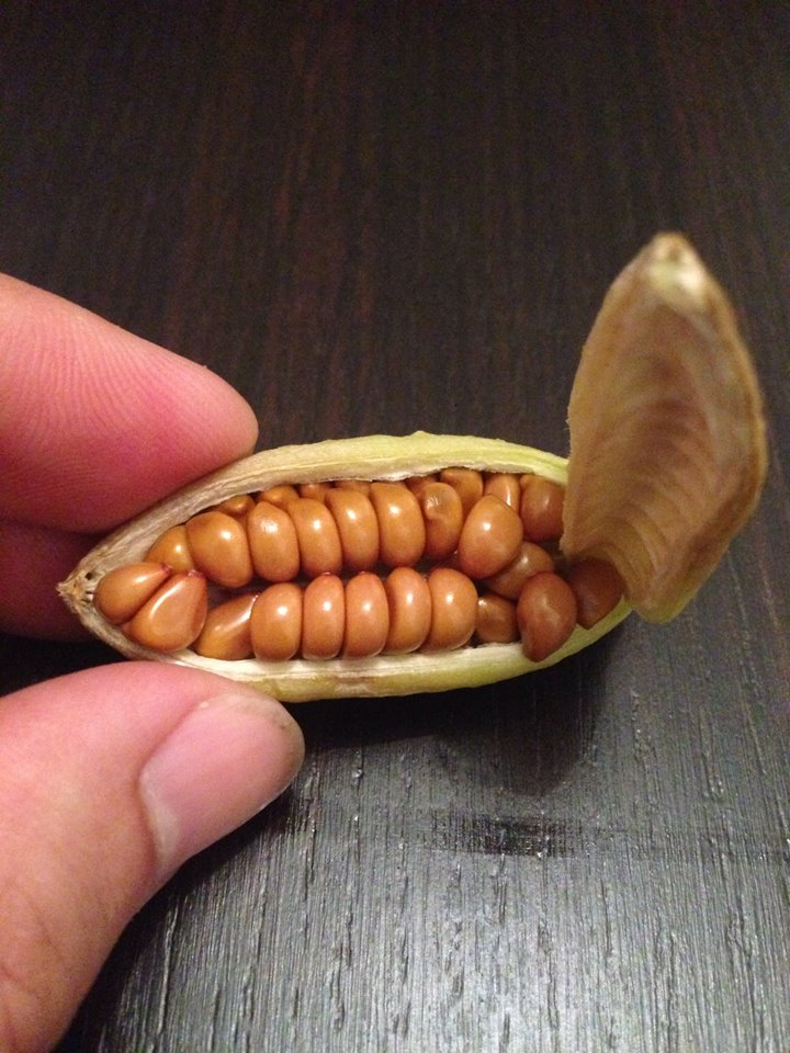 Iris x germanica seed pod